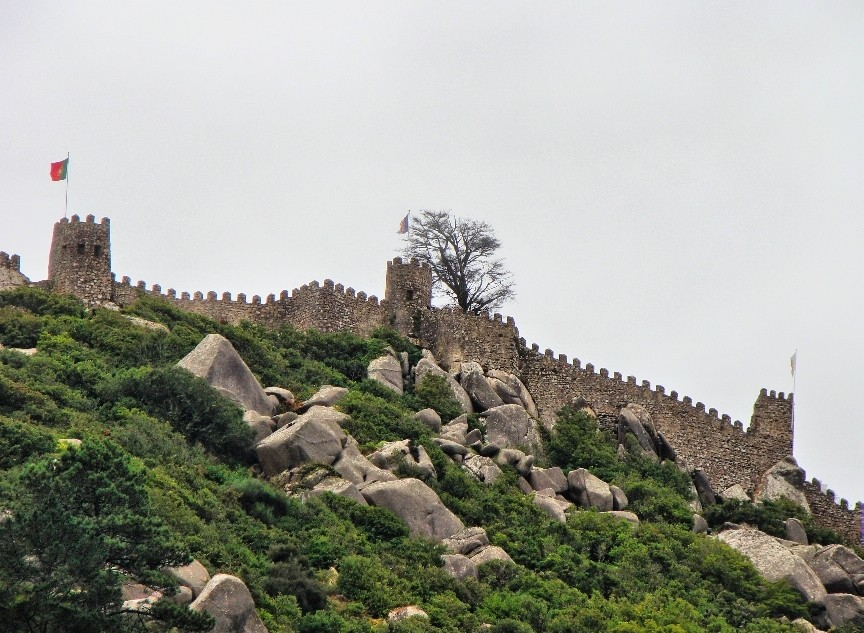 The moors castle